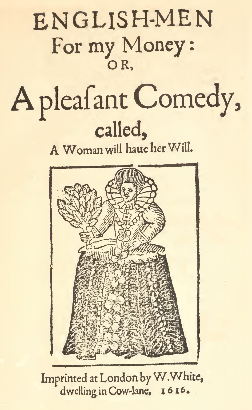 Title page of English-Men for my Money, 1616 edition